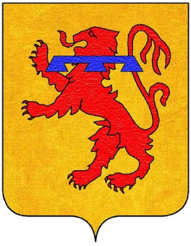 Cantelmo COA